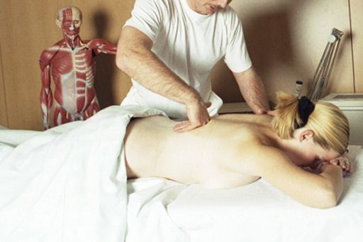 Physiotherapy